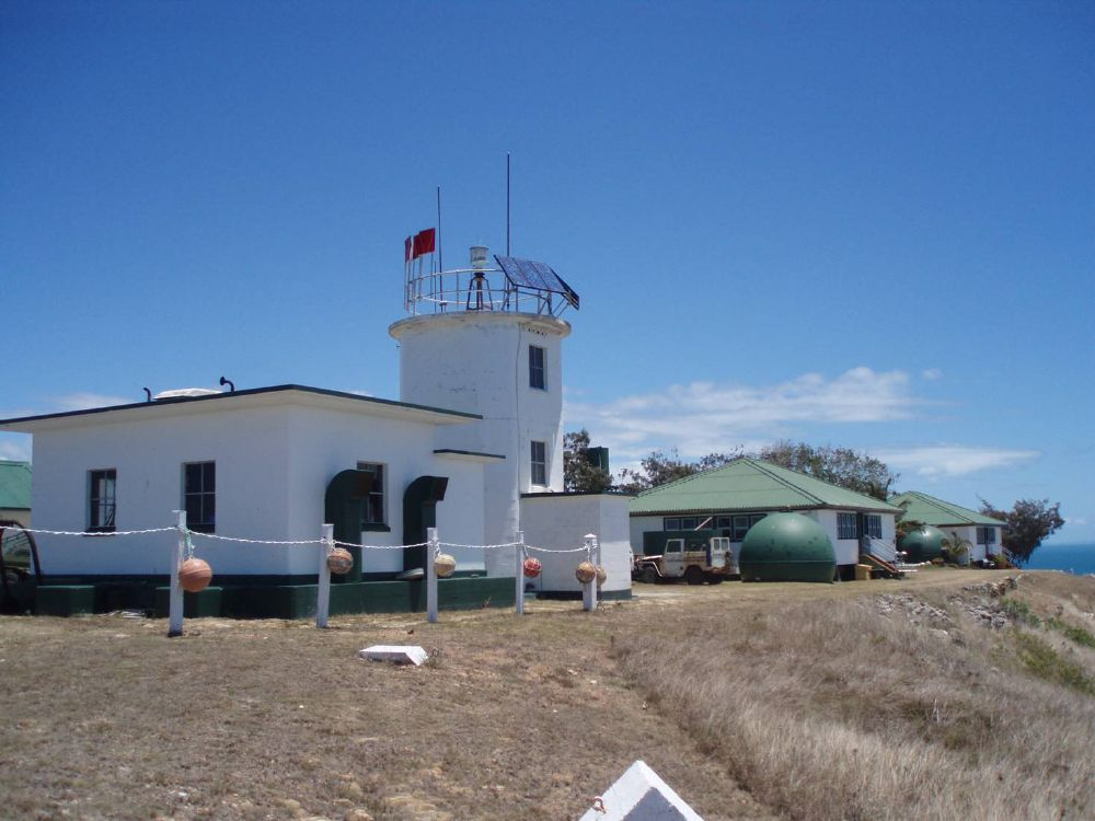 Cape Capricorn Lightstation (2008)